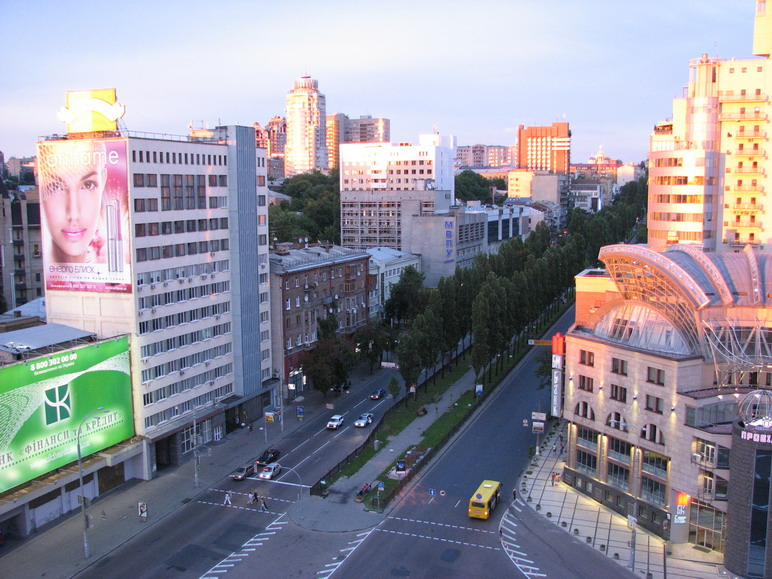 City Center of Kiev, Ukraine at sunrise